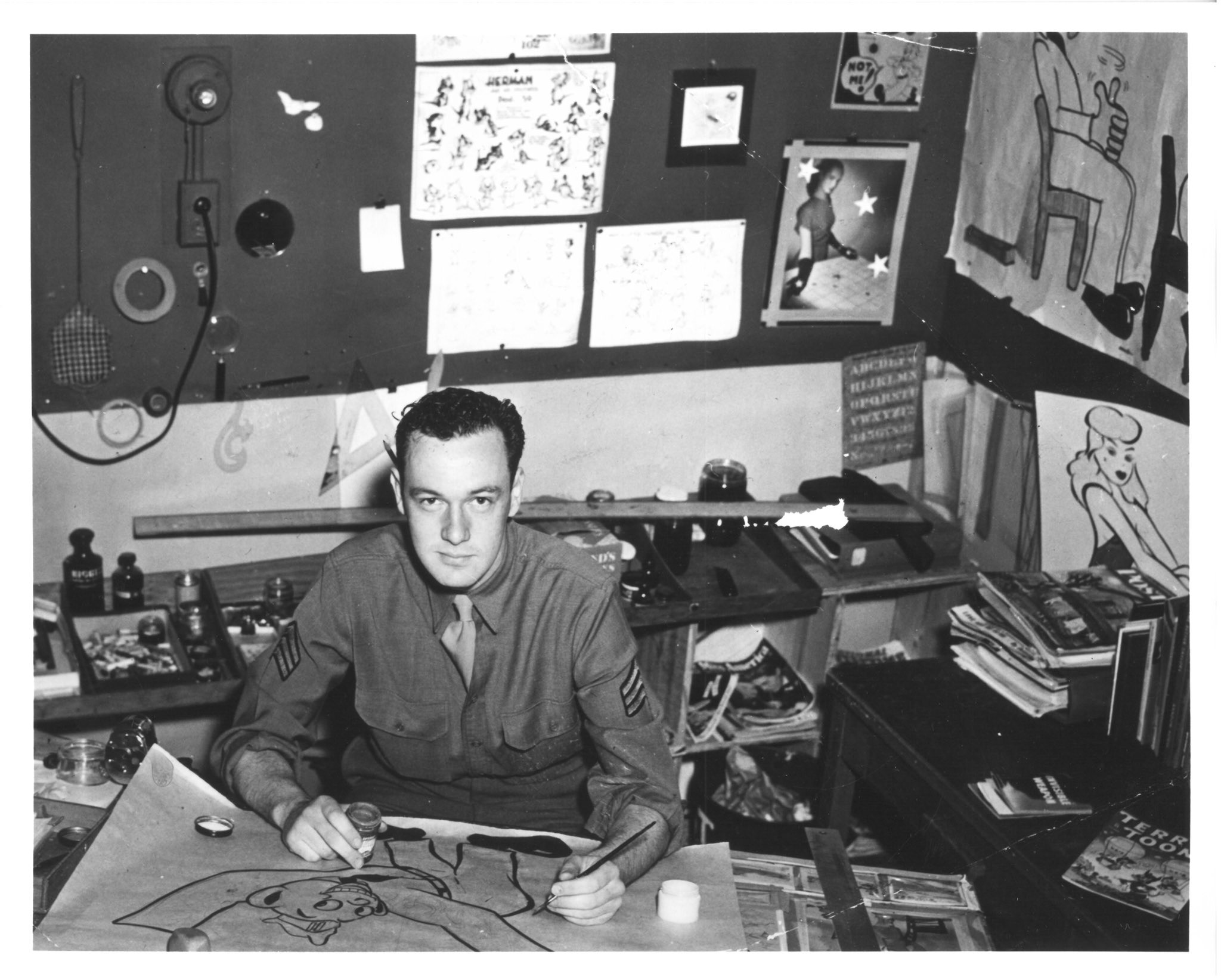 This is a photo of Stan Lee in the U.S army.